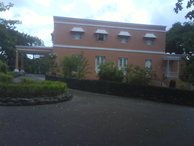 Home of the Barbados National Trust at ('Wildey House') Wildey, Saint Michael, Barbados, West Indies.